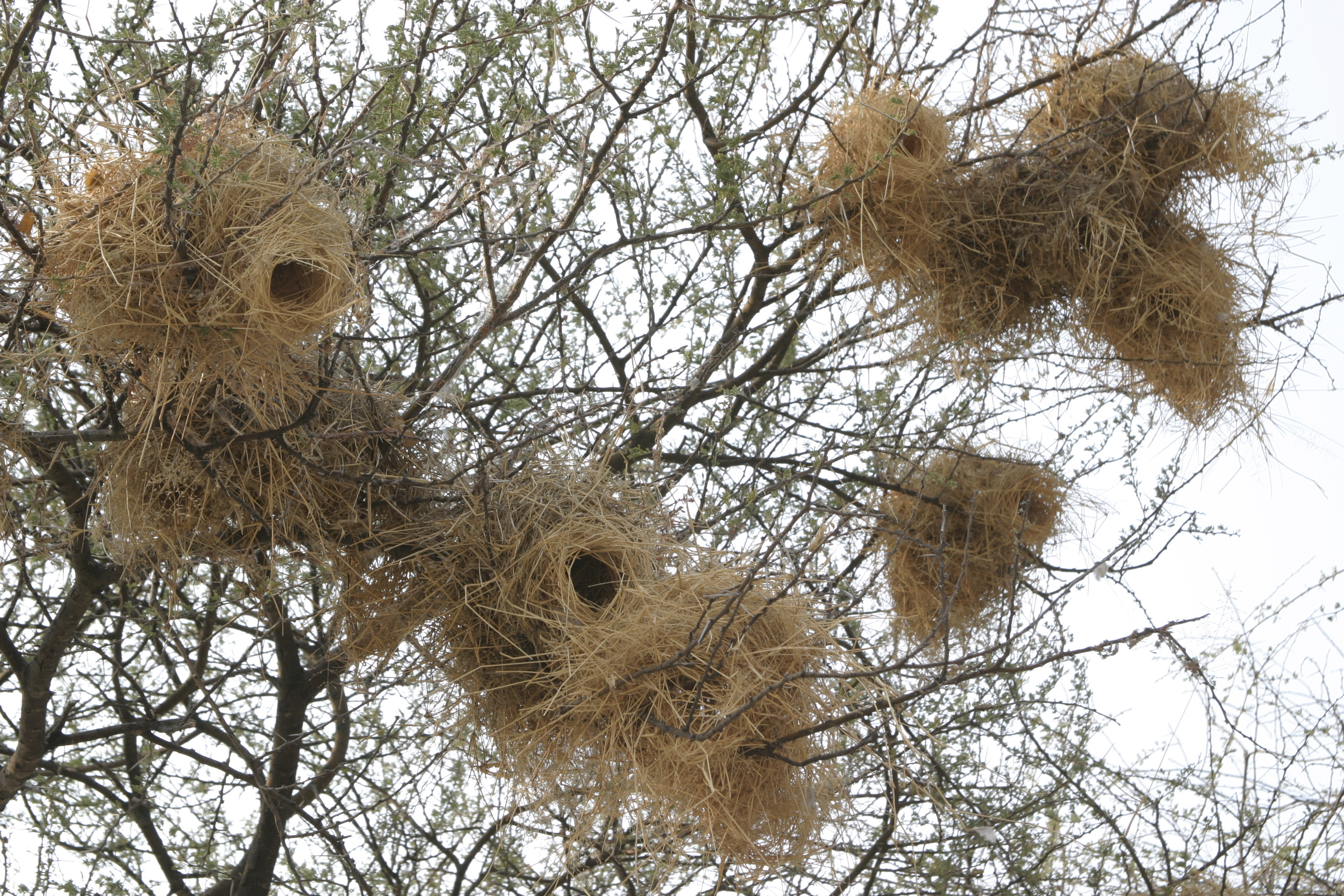 Nests of White-browed Sparrow-weavers (Plocepasser mahali) in an acacia tree. Botswana, Africa.